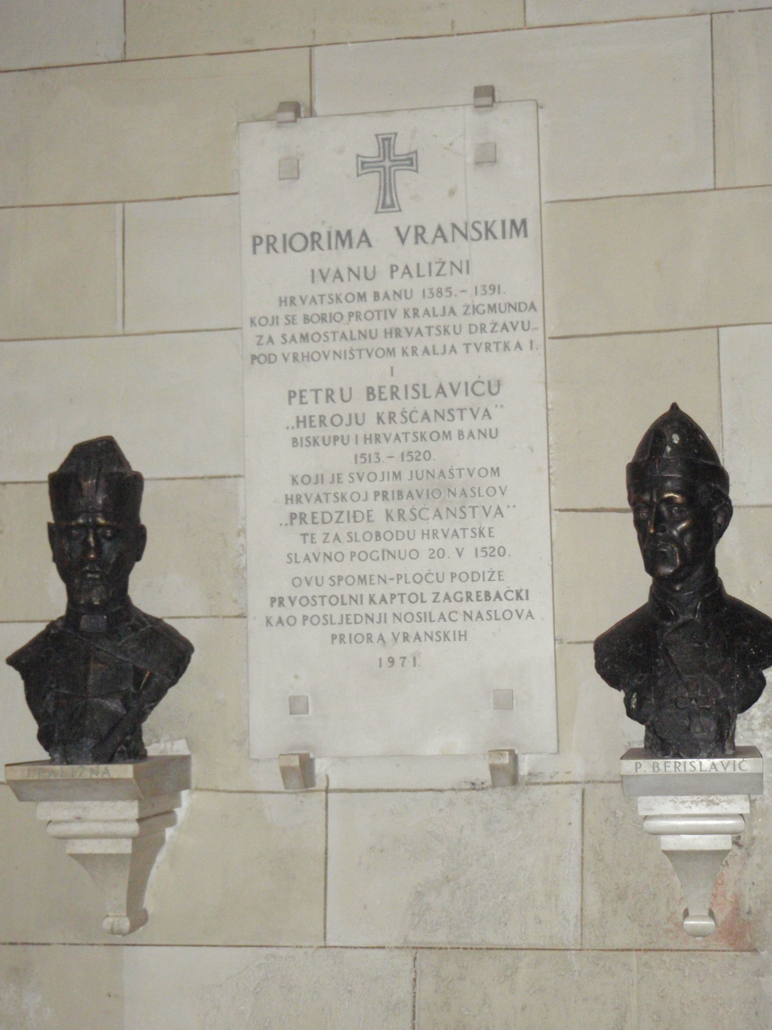 John of Palisna.